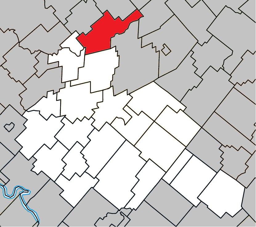 Location of Saint-Louis-de-Blandford, Quebec within Arthabaska Regional County Municipality.